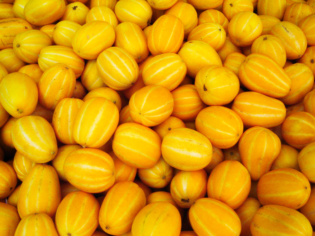 Yellow melons (Korean melon)